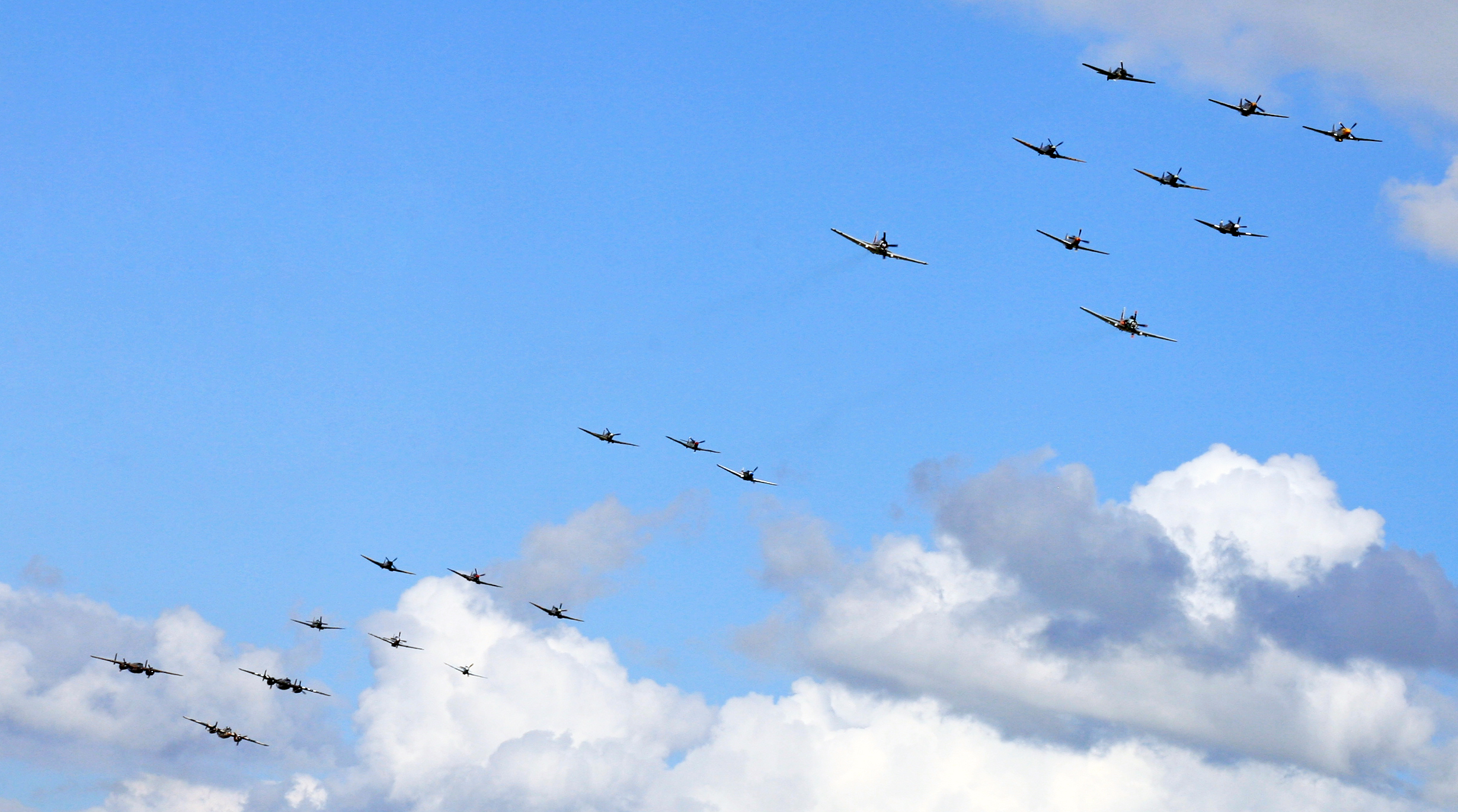 The "Balbo" at the 2009 edition of the Duxford Flying Legends show.